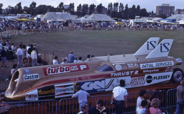 Fast car at the 1984 Southsea Show